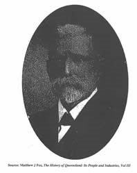 John Newell - Queensland Politician